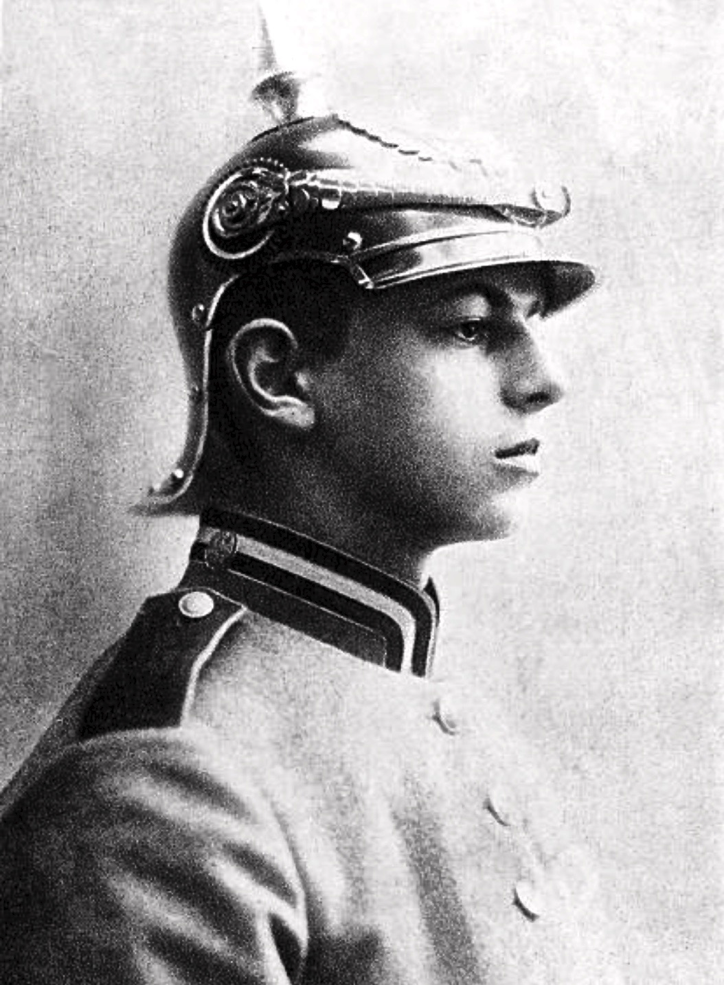 Otto Braun (1897–1918) as a 17 year old German soldier at the beginning of WWI.